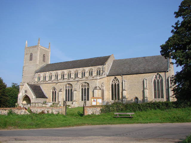 Redgrave St Mary's church, near to Redgrave, Suffolk, Great Britain. A lovely church with a fine twenty-window clerestory and a 14th century porch. The buttresses on the chancel have empty niches. Inside, the church is spacious, and concerts and other functions are held here. The fabric is now maintained by The Churches Conservation Trust but the parish is responsible for improvements. The roof of the nave has hammerbeam and tiebeam with arch-bracing and queen-posts. Morning is the best time to view the splendid east window. The 14th century font is nicely decorated and has faces round the corbel of the bowl. There is an old four-wheel bier on display. In the north aisle is a superb monument with life-size effigies of Sir Nicholas and Anne Bacon (1616). Anne�s mother is remembered in brass in the chancel. There is a similar monument in the chancel to John Holt (1642). The church achieved national fame when a lady put her foot through the floor into a crypt. Further examination revealed that there are many other voids beneath the floor, where burials have taken place over the centuries.